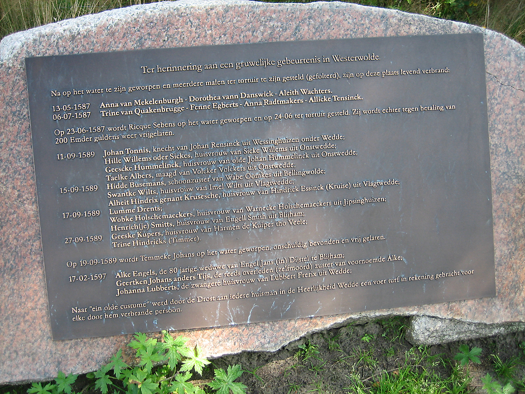 Memorial to the witches that were killed here during witchtrials.